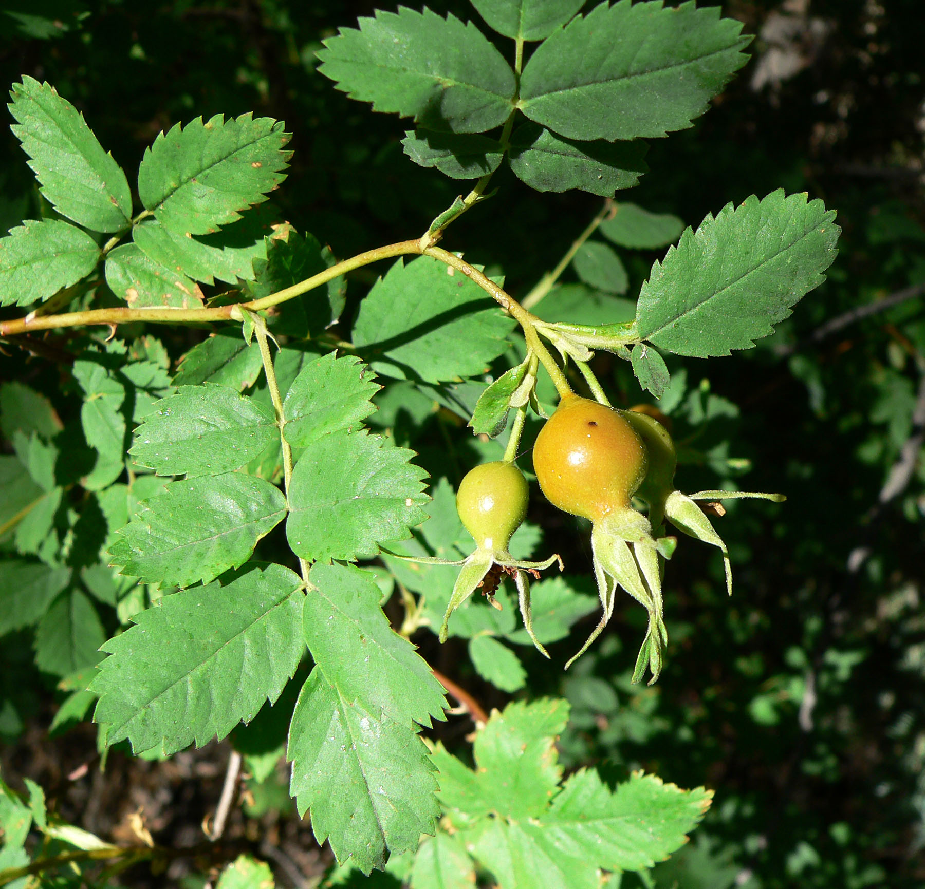 Rosa woodsii in Mount Charleston just below where Kyle Canyon Road crosses over the wash, Kyle Canyon, Spring Mountains, southern Nevada (elev. about 2300 m)